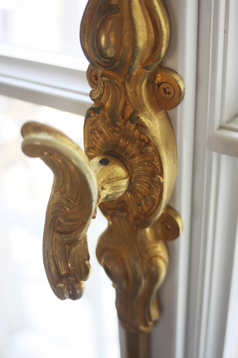 Foyer of the Hermitage Theatre Leon Benois. Detail of window